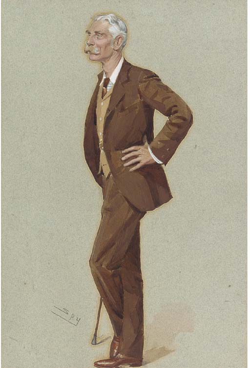 Caricature of Major-General Sir Ronald Bertram Lane. Caption read "Rowdy". Accompanying biographical note in Vanity Fair read "Of his coolness and humour those who were in the Zulu War have still a story to tell. A certain war correspondent of assurance and reputation had declared that if the Zulus were crushed, that they would not fight again. Lane held a contrary opinion, and a bet of a tenner was the result. The battle of Ulundi followed. The firing had been a trifle wild. The Zulus were within two hundred yards and coming on fast. An order was given to resume volley firing. In the few seconds pause Lane was heard to call out cheerily to the correspondent, 'I say, ...., as we don't seem likely to get out of this square, I'll trouble you to hand over that tenner now'.... He is now Lieutenant-Governor of the Chelsea Hospital and his old friends still call him 'Rowdy Lane'".